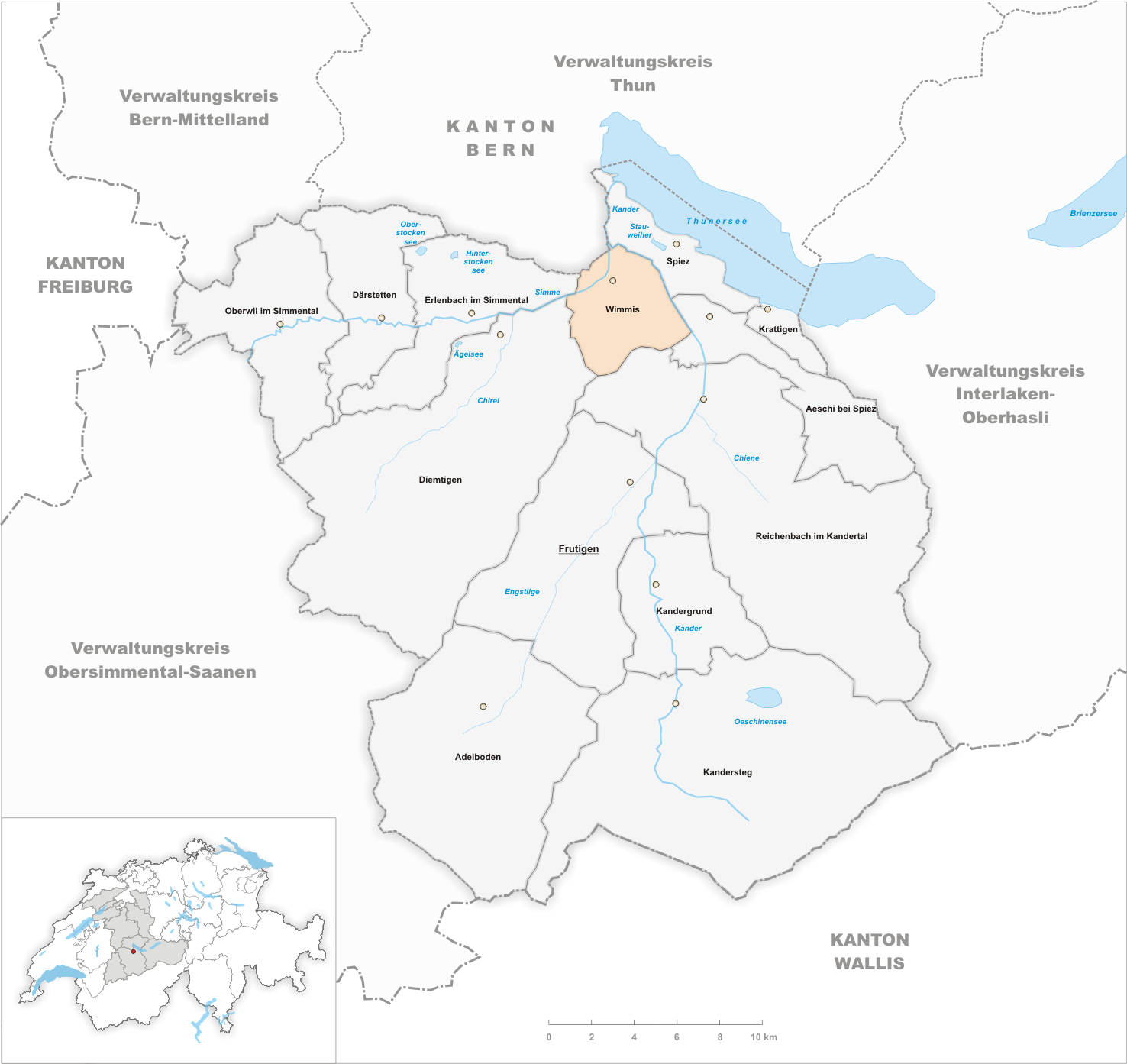 Municipality Wimmis